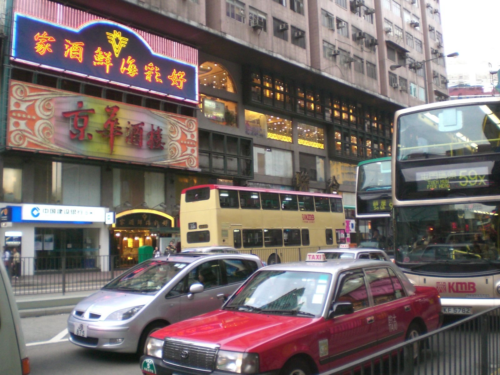 旺角 彌敦道 聯合廣場 好彩海鮮酒家